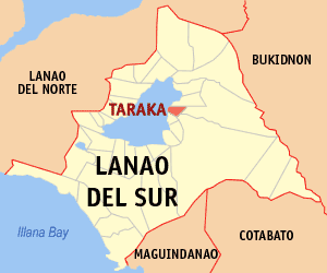 Map of the Lanao del Sur showing the location of Taraka